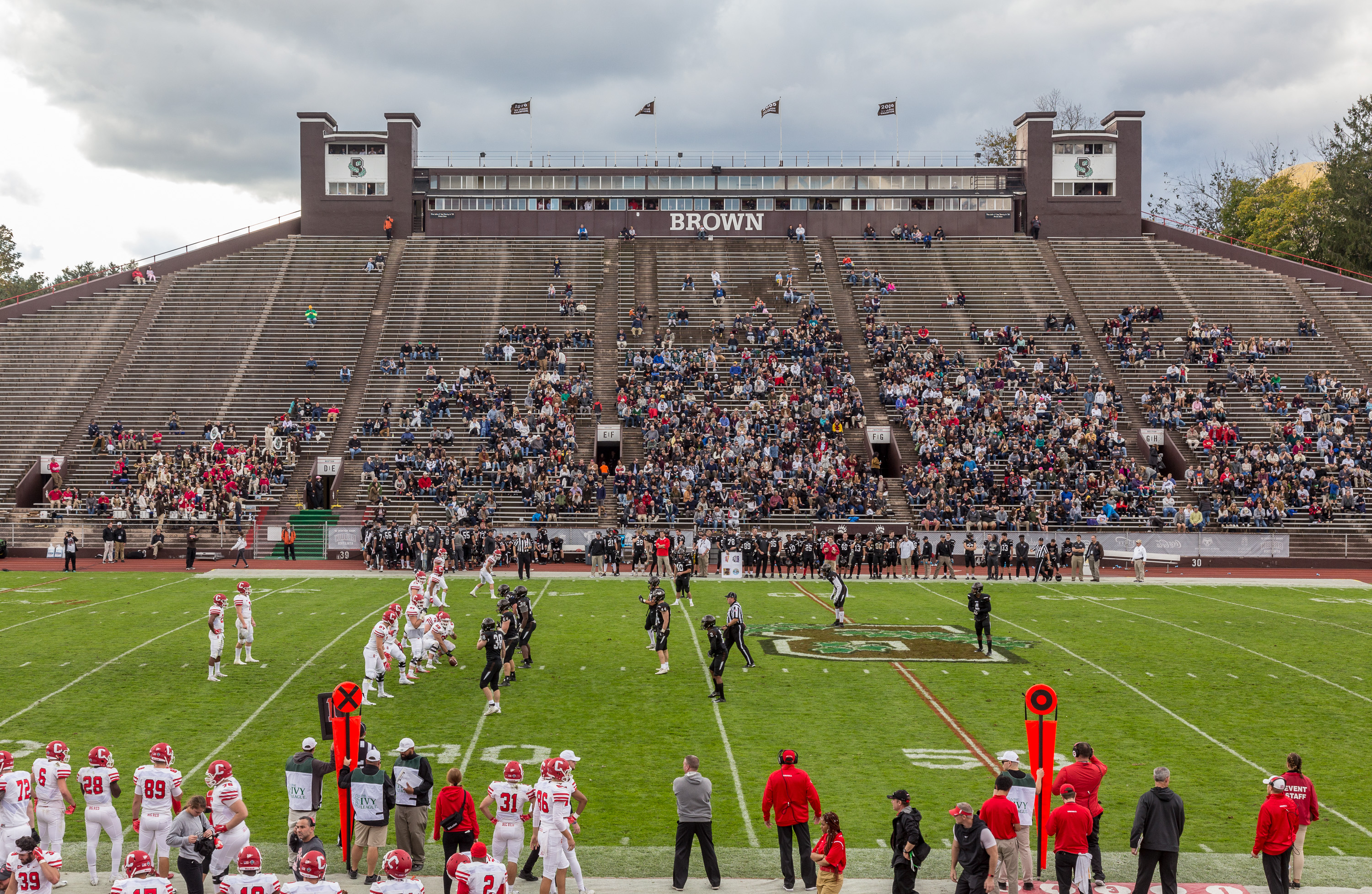 Brown plays Cornell, Oct 20, 2018 at Brown Stadium. Looking toward the main grandstand. Providence, Rhode Island